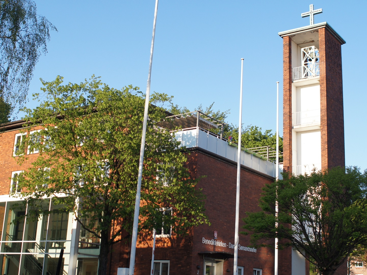 Danish Seamens Church Hamburg, Benedikte church